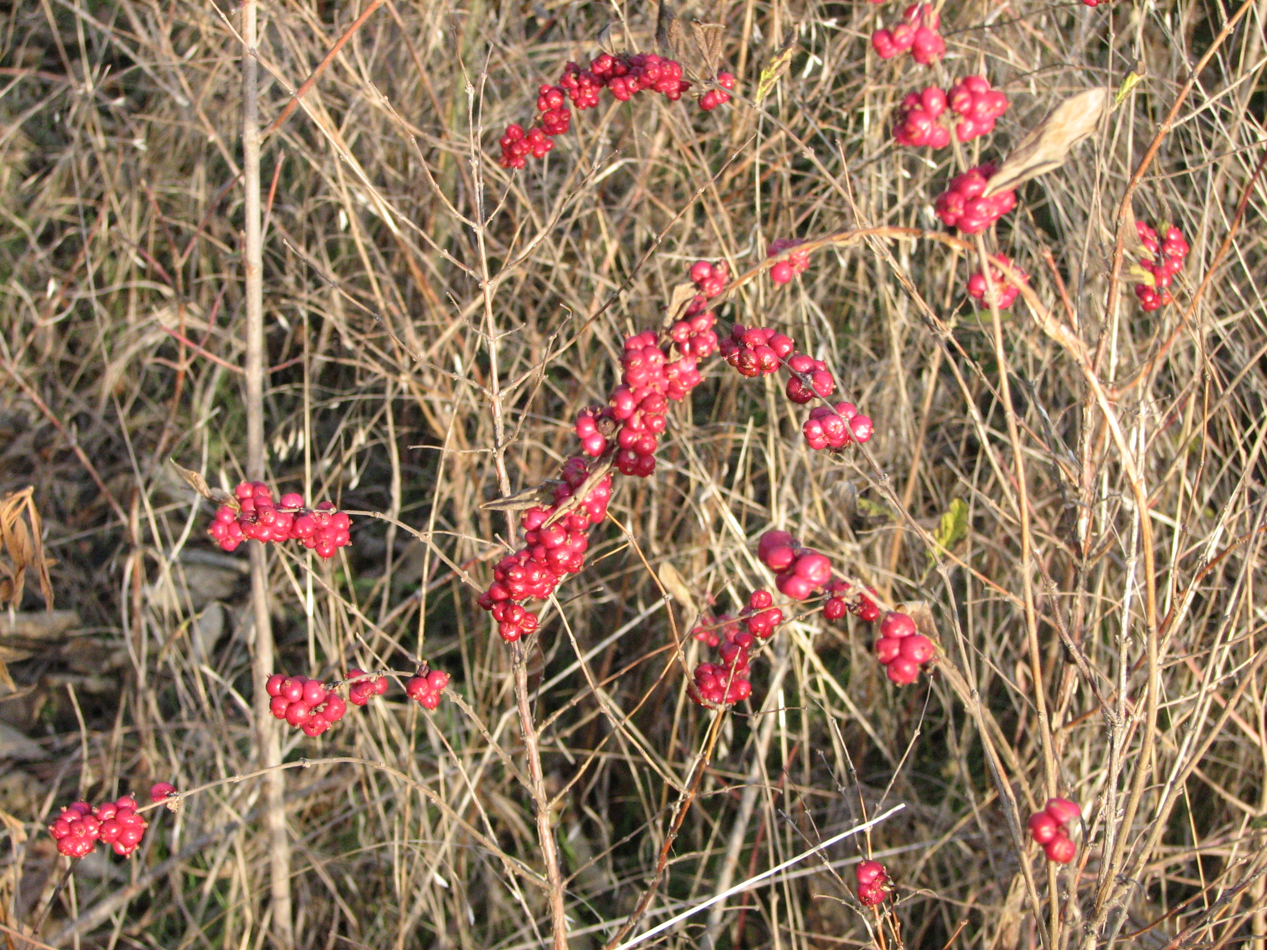 Ripe coral berries in the fall, Saline County, Kansas.